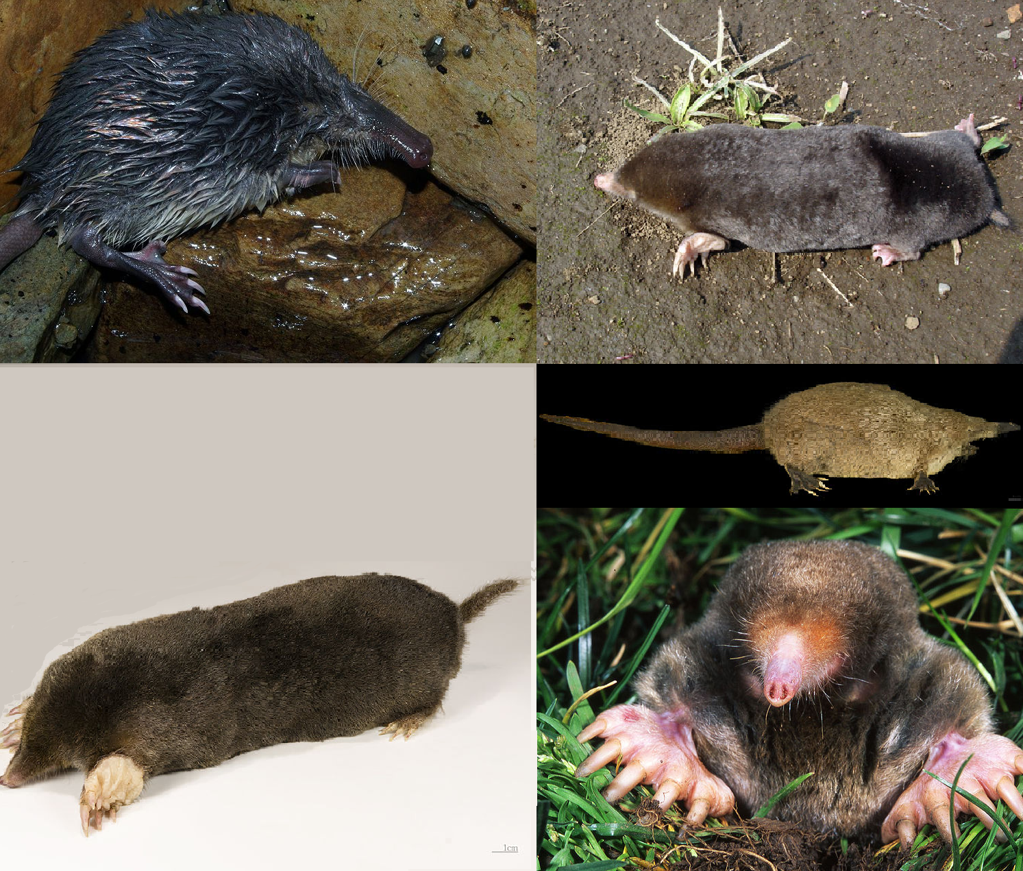 Left column:Top:en:Pyrenean desmanBelow:en:European moleRight column:Top:en:Small Japanese moleMiddle:en:Russian desman Below:en:Eastern mole